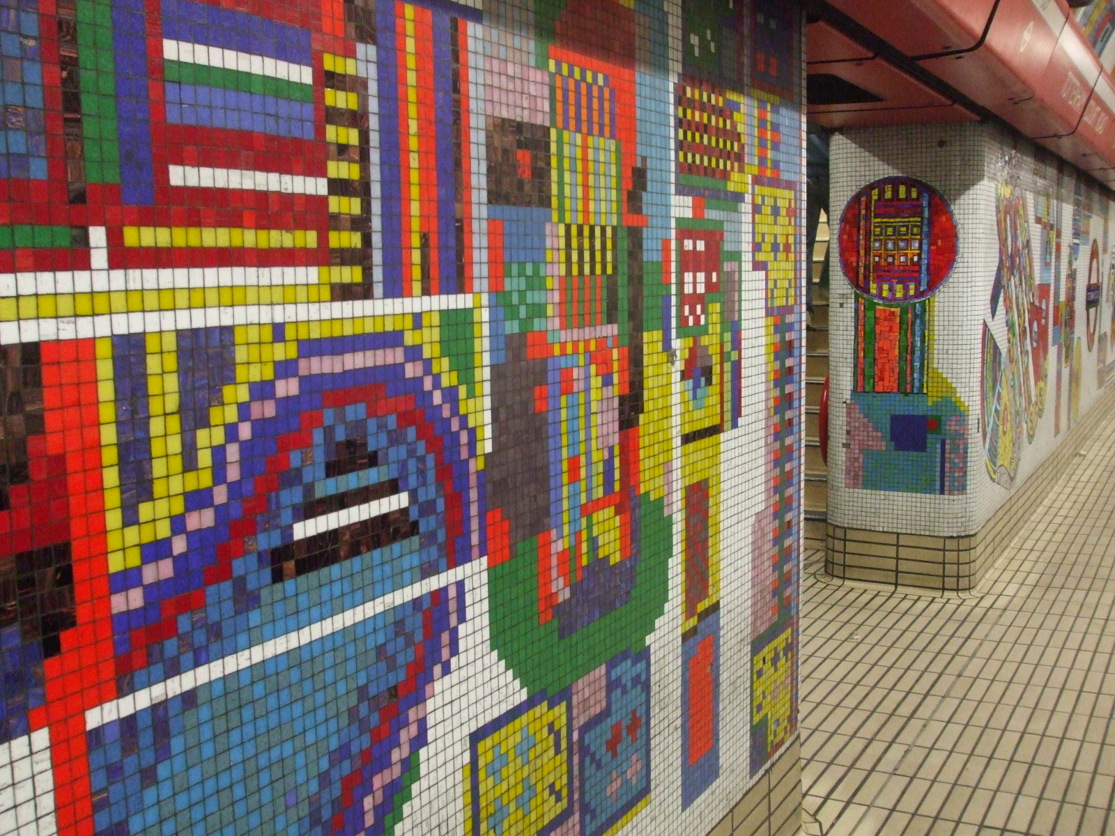 Tottenham Court Road station Central line platform mosaic art. Original design by Eduardo Paolozzi.